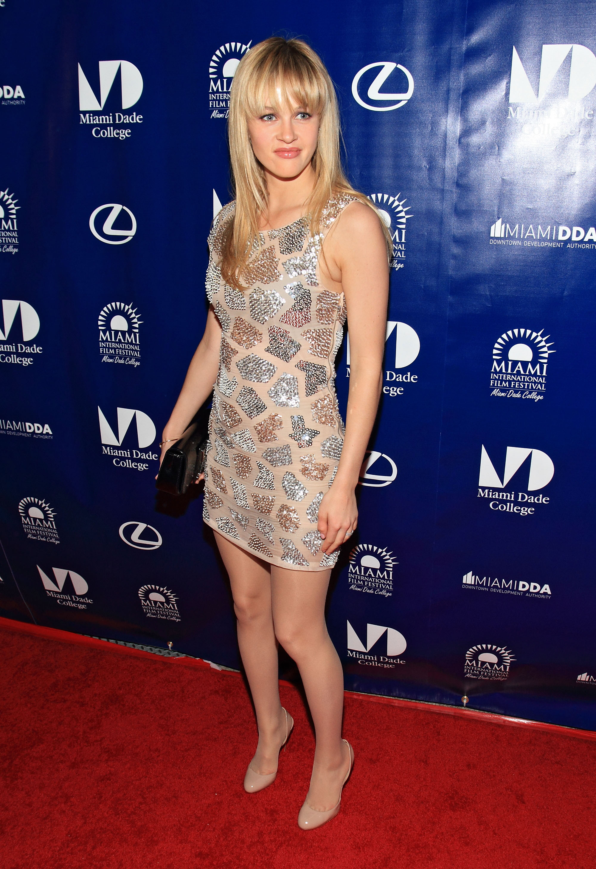 Actress Ambyr Childers at the at the 2011 Miami International Film Festival world premiere of Things Fall Apart at the Gusman Center for the Performing Arts on March 5, 2011